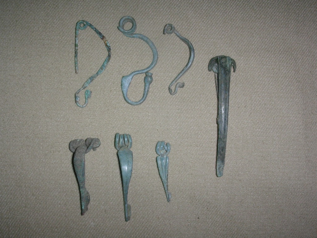 La Tène Era Fibulae. (Clockwise from top left.) Thraco-Getic Fibula, type IIIa1. 350-300 BCE. La Tene I Fibula with moulded foot knob. 4th-3rd c. BCE. (Missing pin.) Thraco-Getic Fibula, type IIId. 300-250 BCE. (Missing pin.) Dish, or Schussel, Fibula. La Tene III. 50-1 BCE. Nauheim Fibula. La Tene III. 1st c. BCE. Nauheim Fibula. La Tene III. 1st c. BCE. Nauheim-style Fibula. La Tene III. 1st c. BCE.